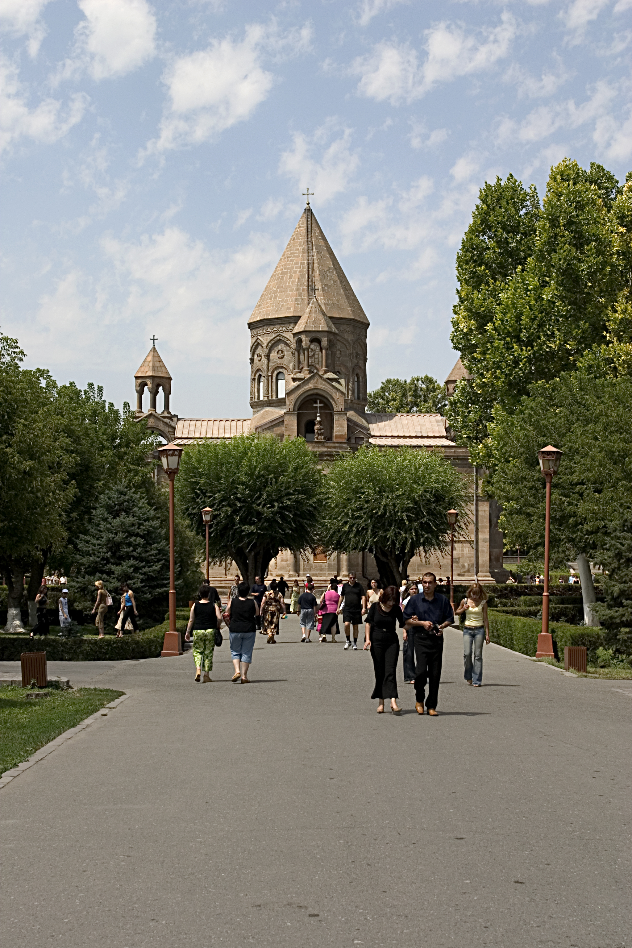 Echmiadzin Cathedral (view from the back)